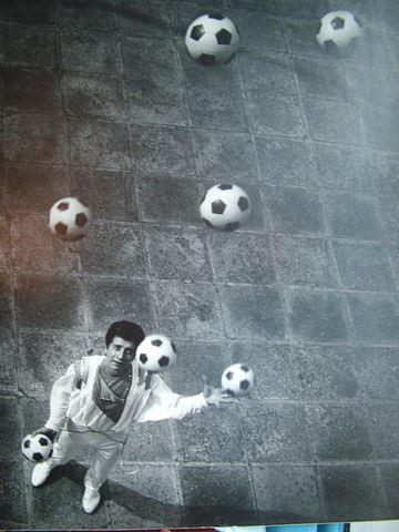 Juggling 7 football balls